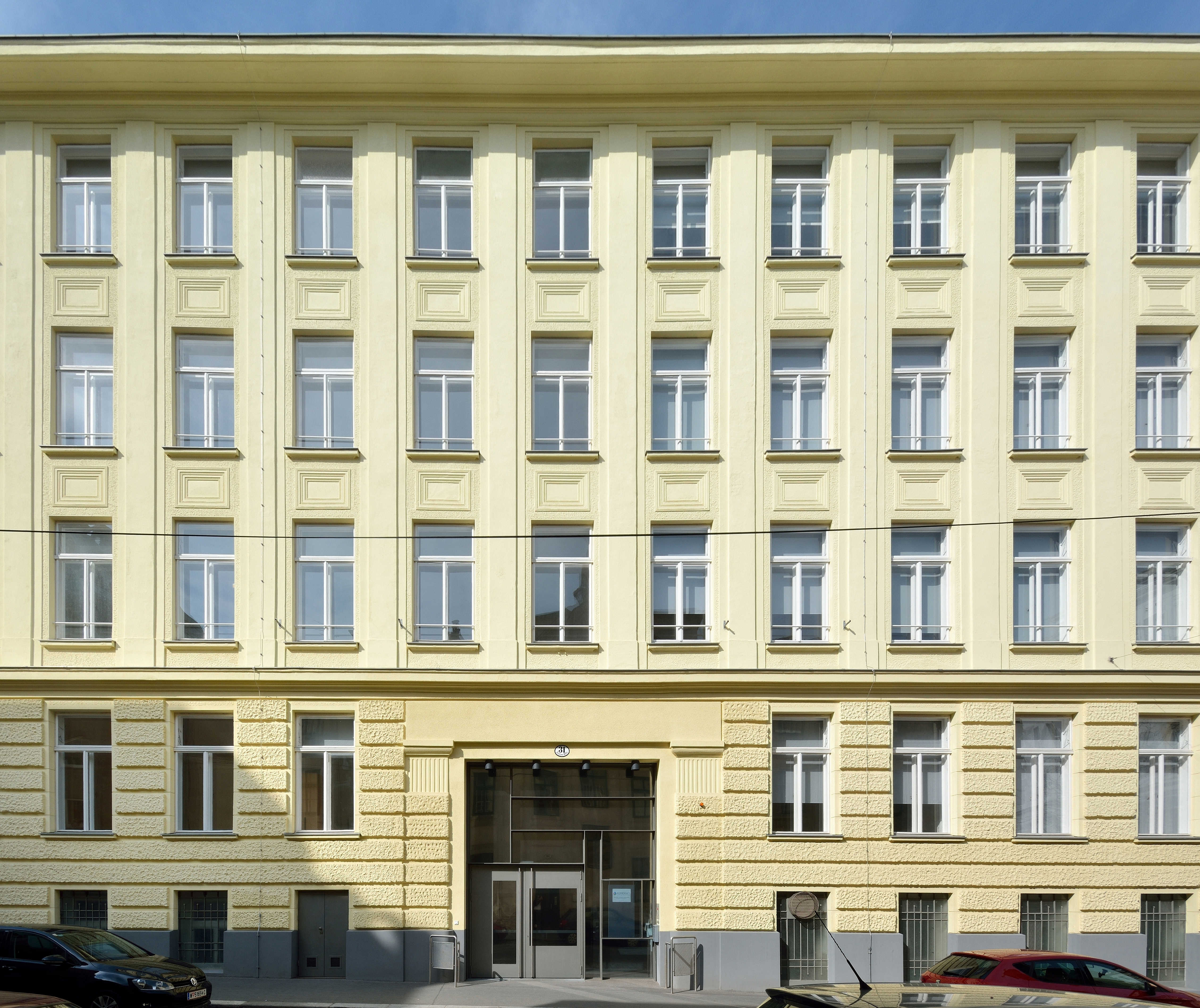 Komensky high school, Schützengasse 31, 3rd district of Vienna